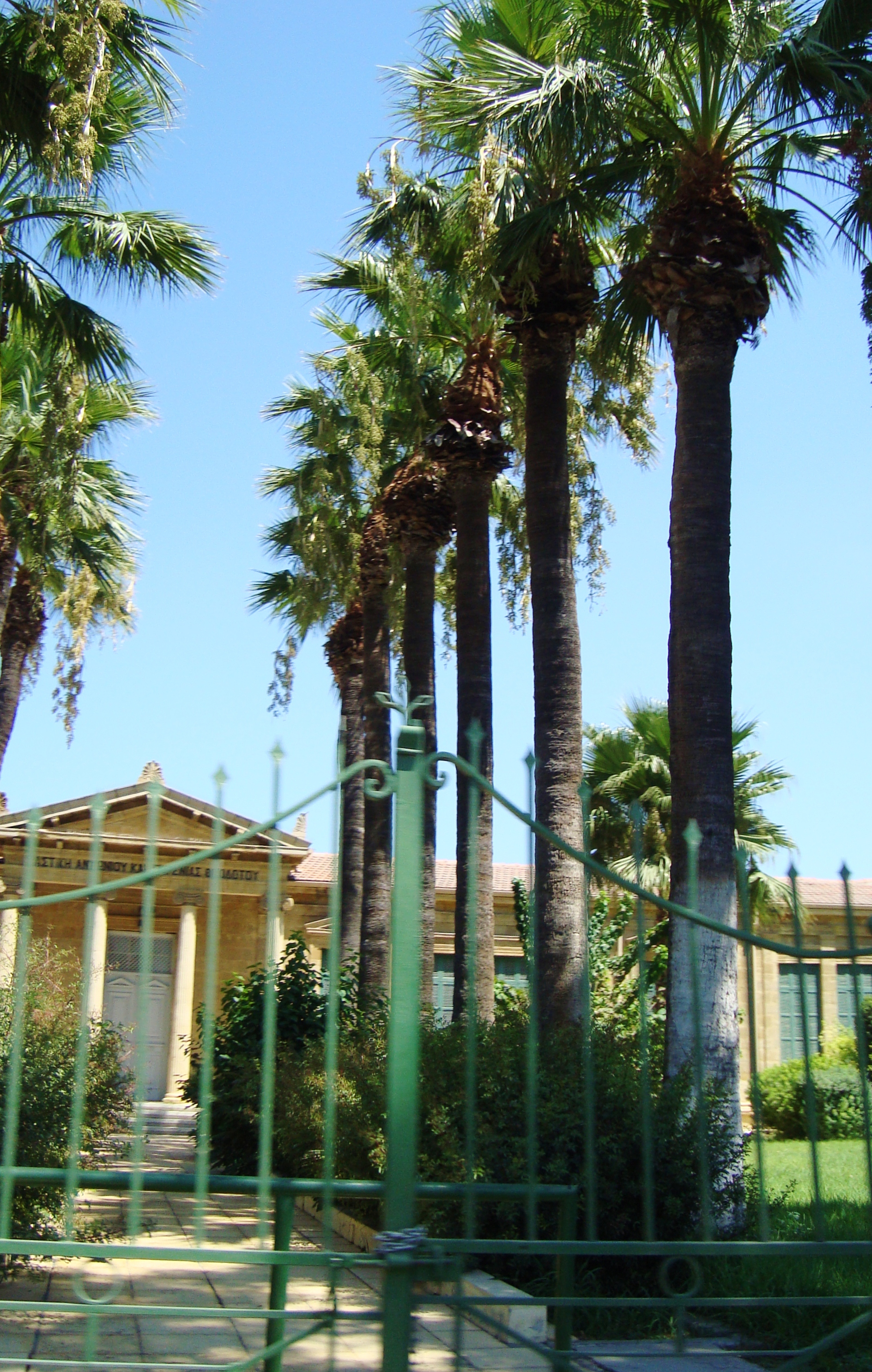 Agios Antonios Saint Antonis Elementary school Nicosia Republic of Cyprus